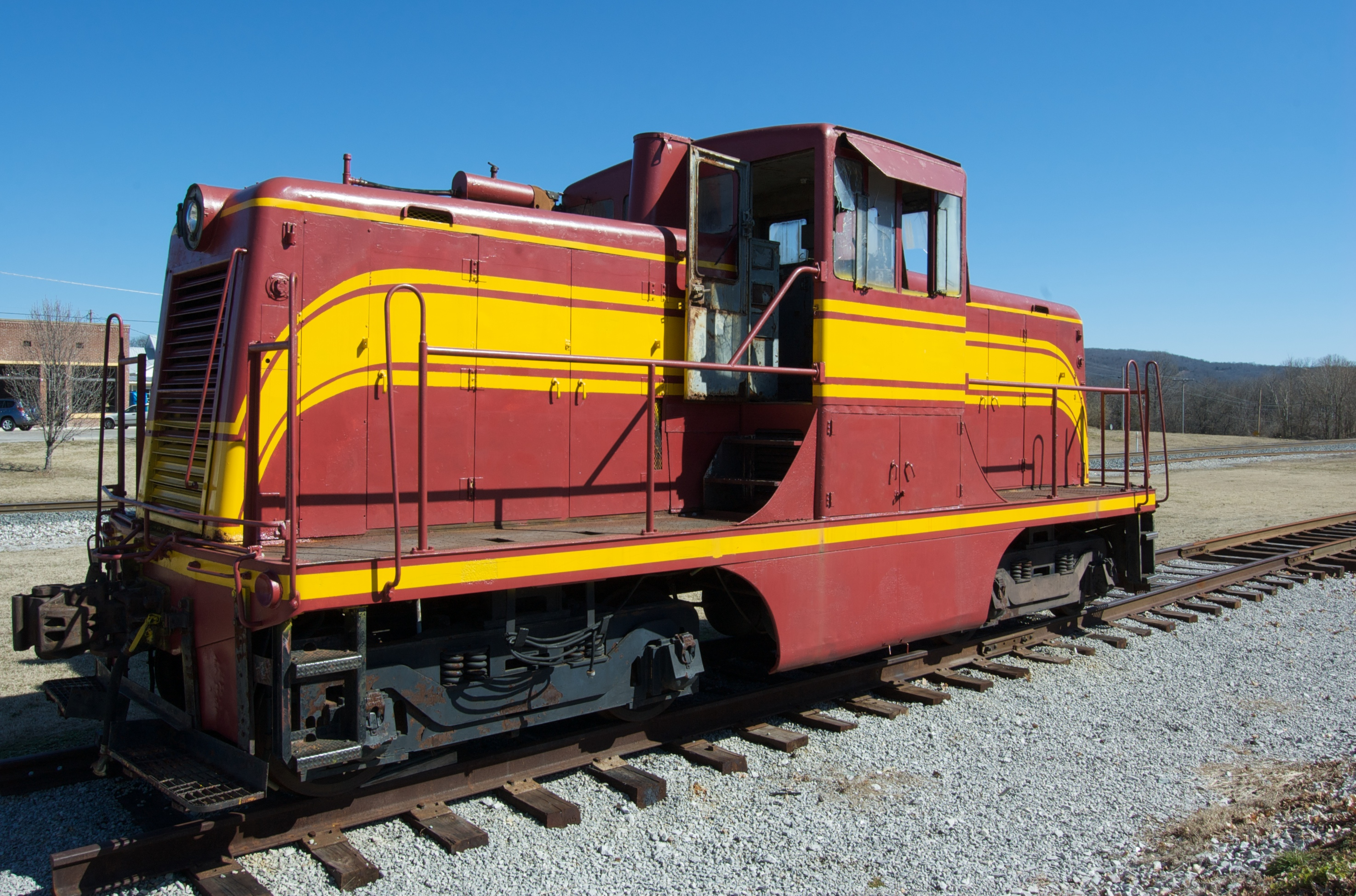 Retired pusher engine sitting outside of the Cowan Railroad Museum, Cowan, Tennessee, USA